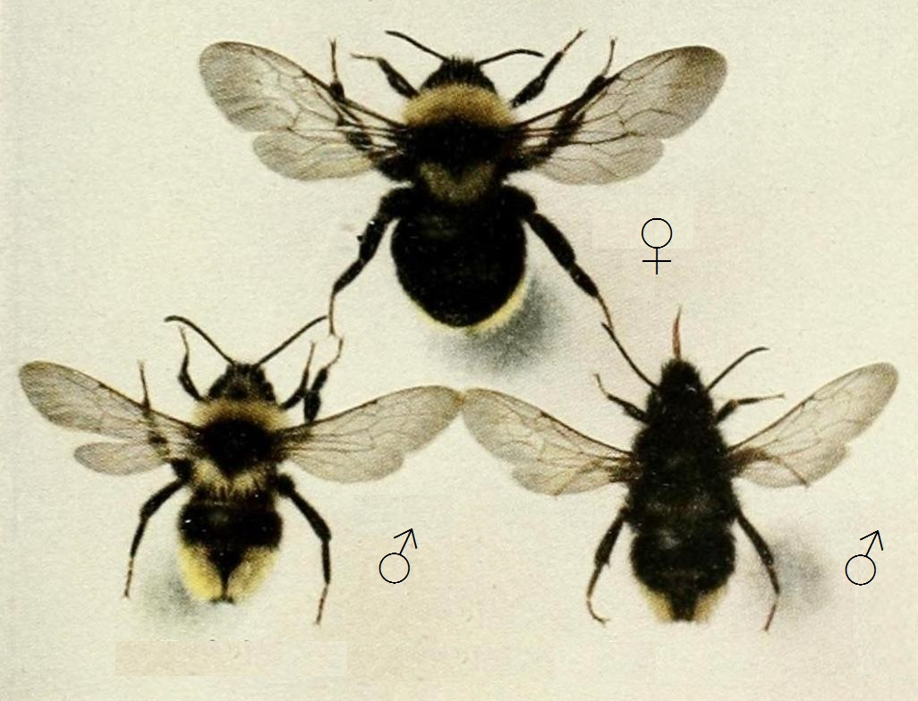 Female and males (light and dark form) of Bombus (Psithyrus) campestris (Panzer, 1801)